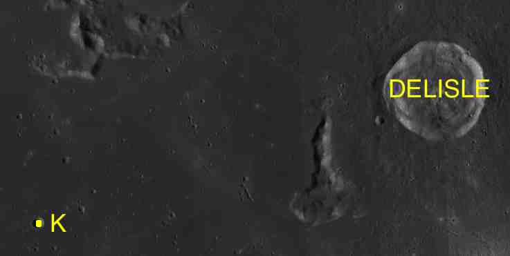 Part of the chart LAC-39 used for the presentation